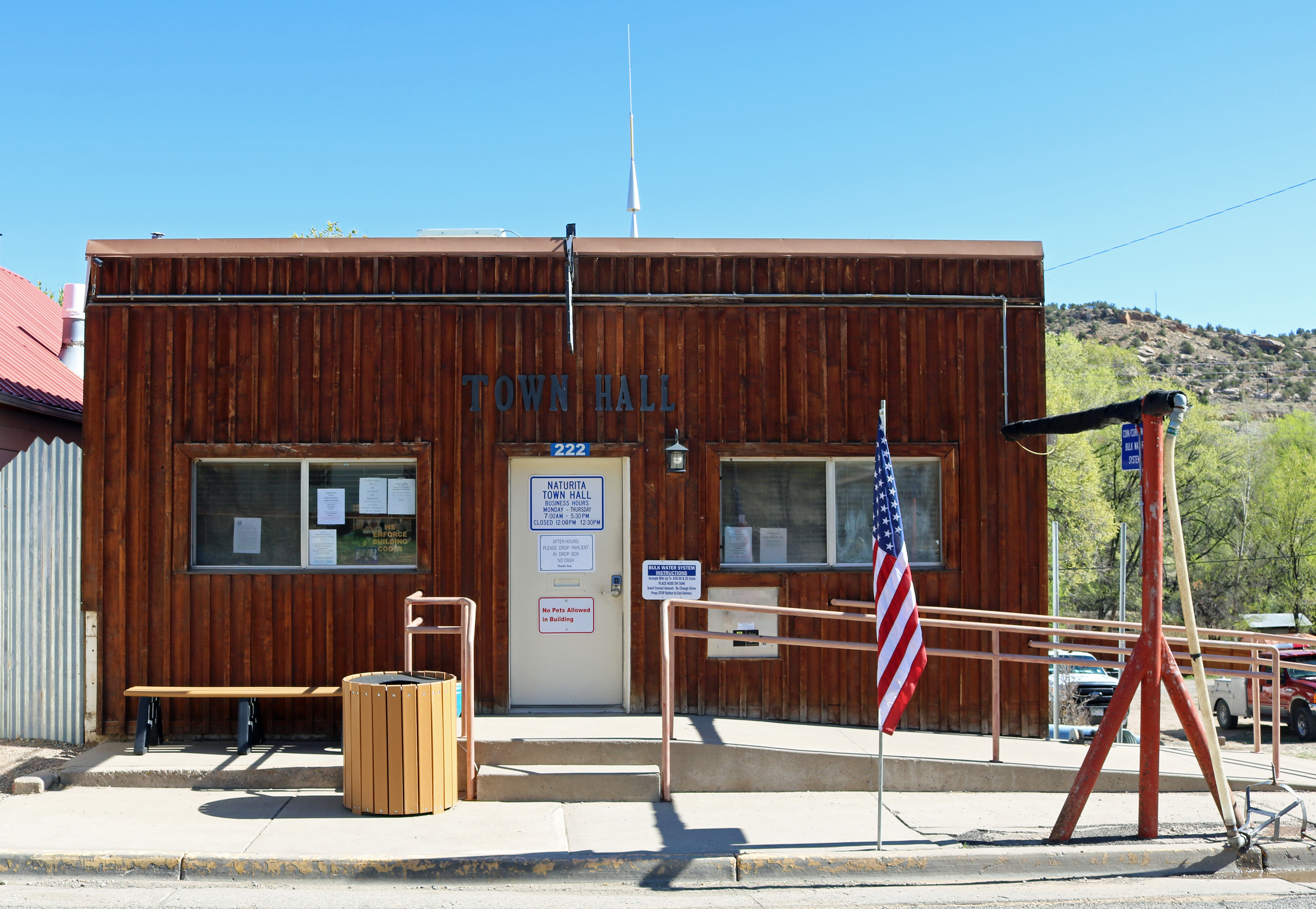 The Naturita, Colorado town hall, located at 222 east Main Street in Naturita, Colorado.